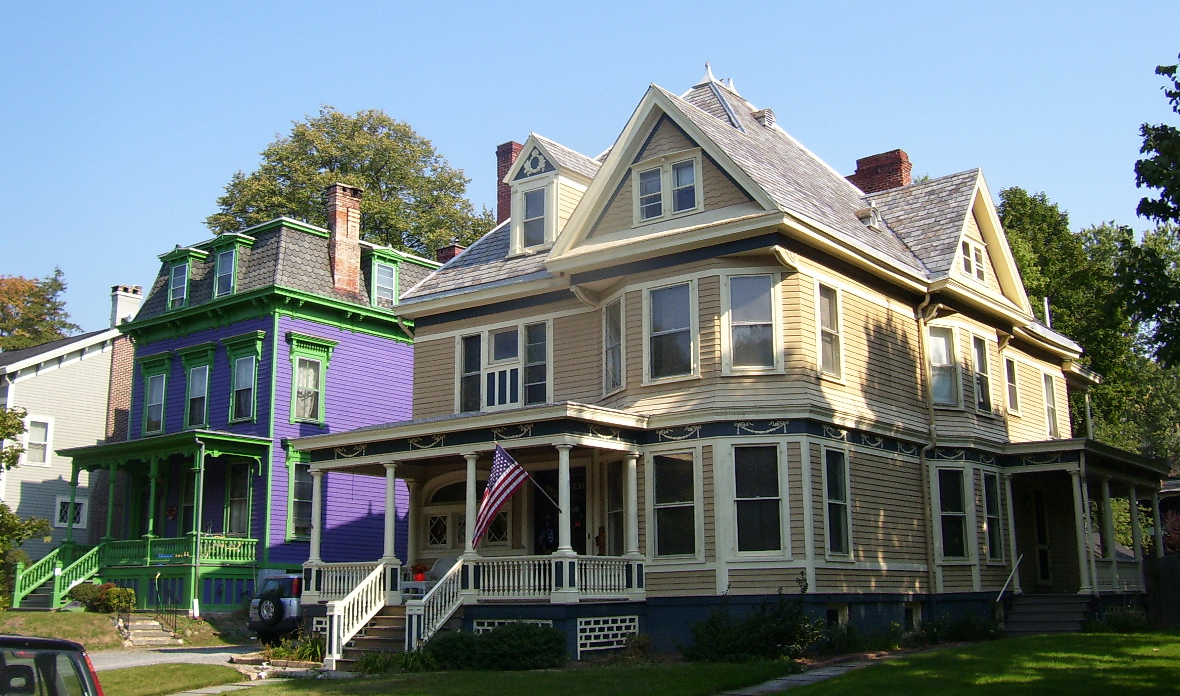 Victorian-era houses in the Academy Street Historic District in Poughkeepsie, NY, USA